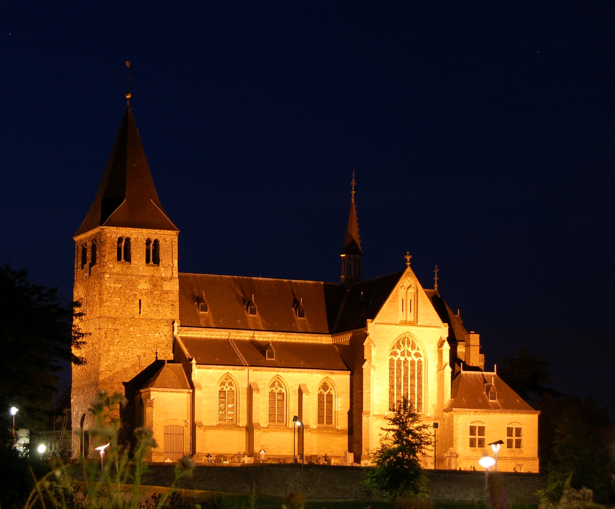 The Church in the Dutch city Heel by night